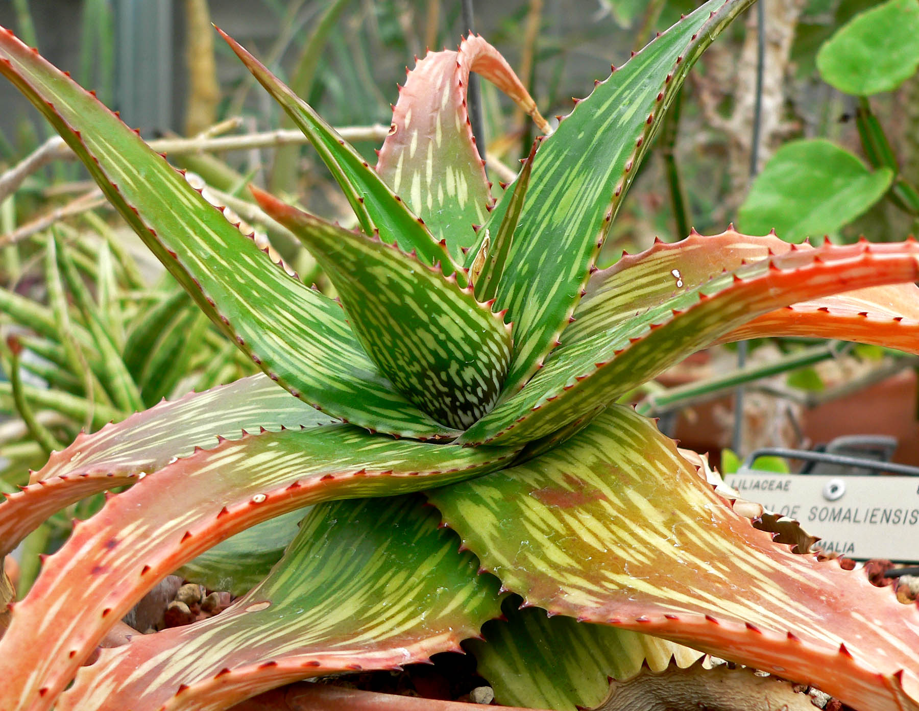 Photo of Aloe somaliensis at the University of California Botanical Garden